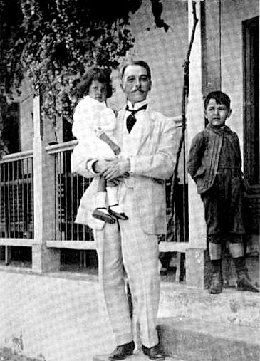 Photograph of Carlos Eugenio Restrepo, President of Colombia in 1910.